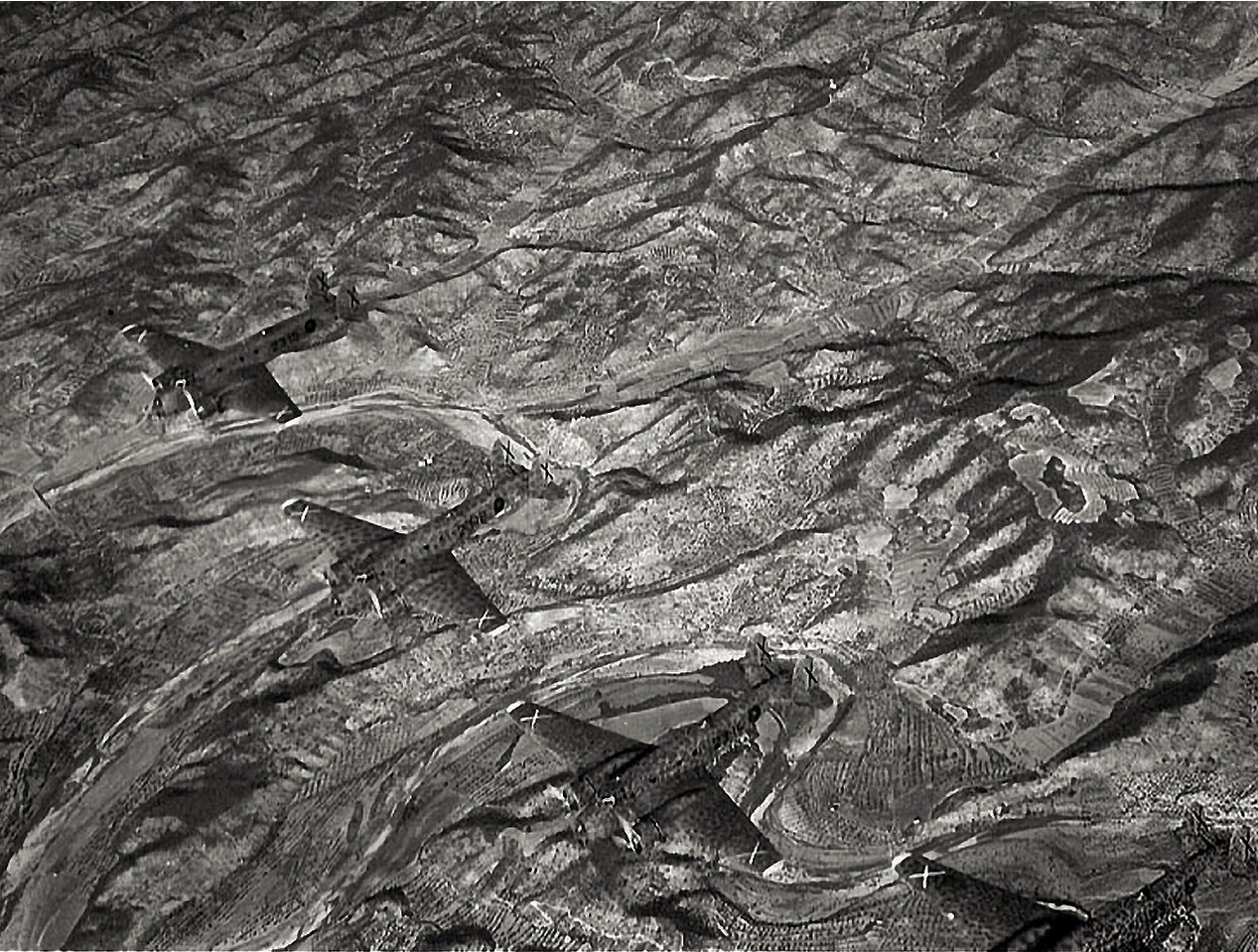 Note the perfect camouflage of these Fiat B.R.20. This solidly-built metallic airplane started his career as a bomber just in Spain on June 1937